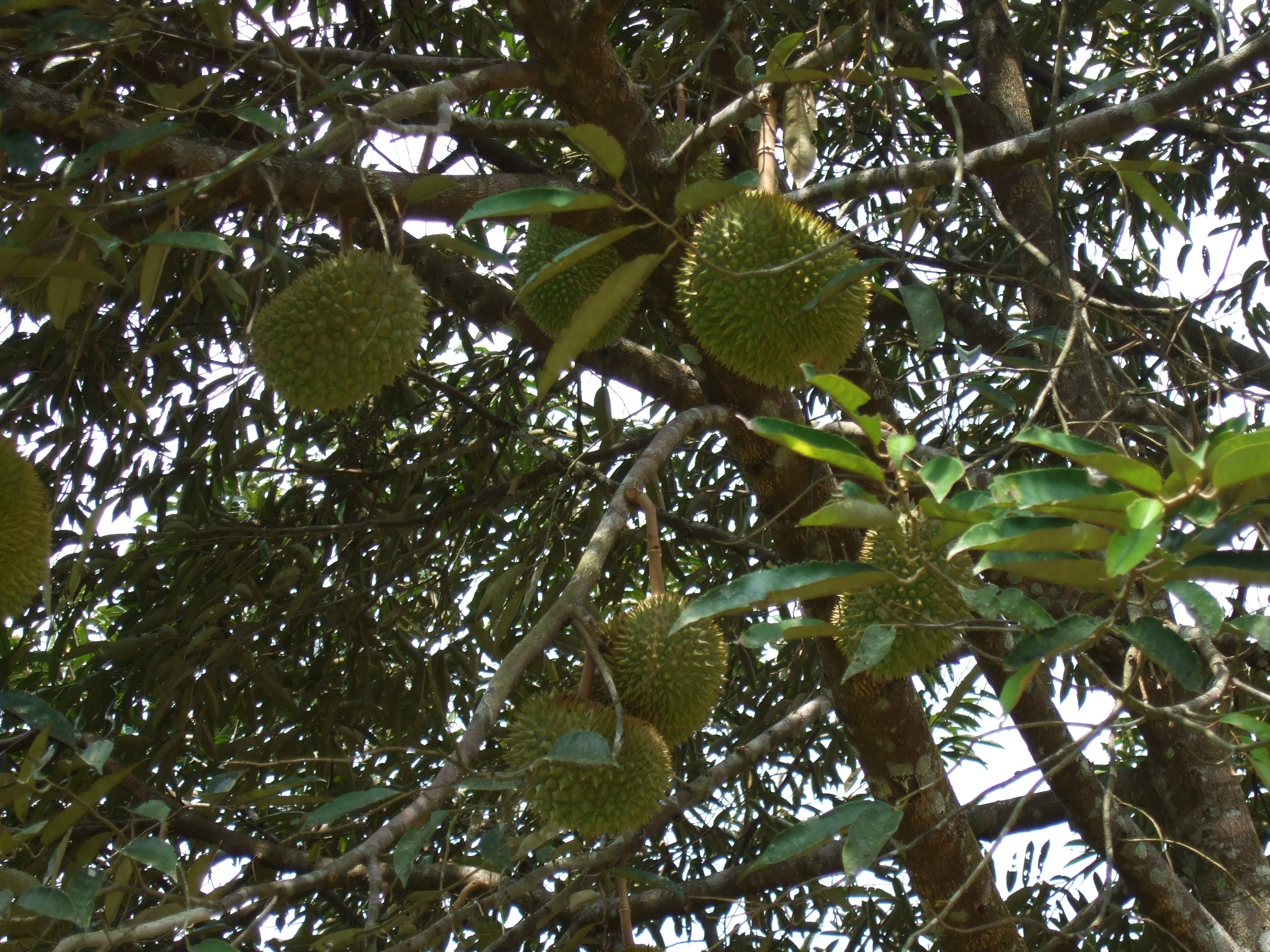 Durians on a tree